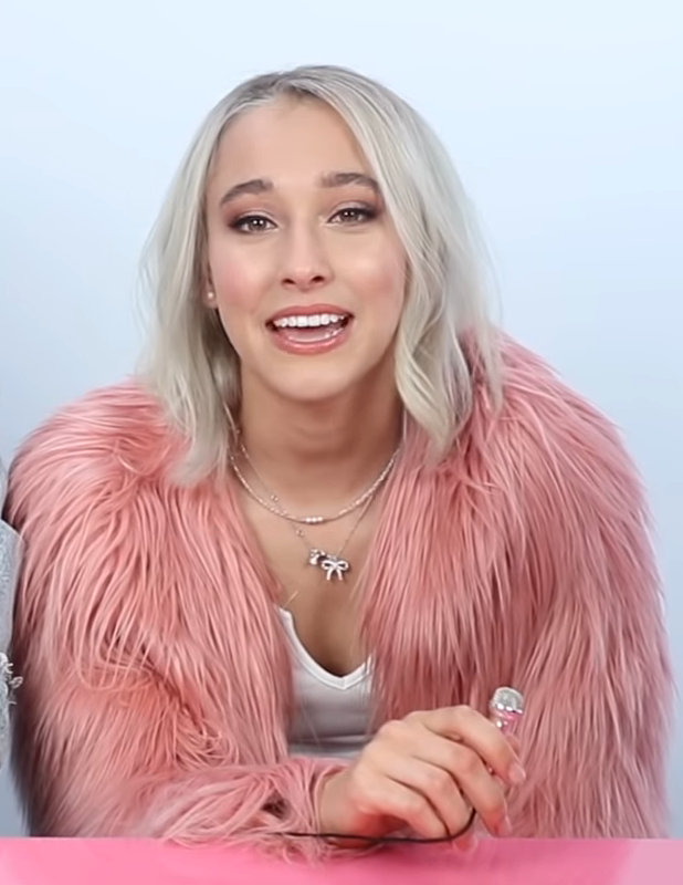 Joana Ceddia after receiving a makeover from Brad Mondo